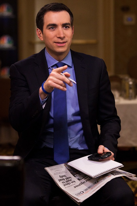 This is a photo of author, journalist and anchor Andrew Ross Sorkin.